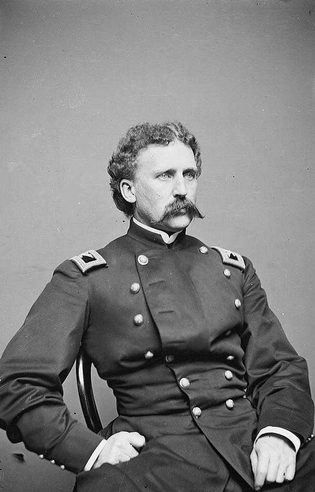 J. C. Kelton